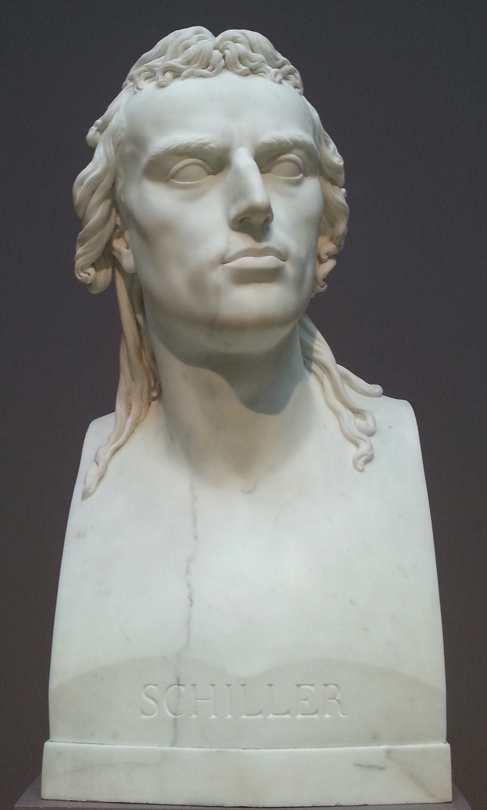 Johann Heinrich Dannecker’s bust of the German poet Friedrich von Schiller, carved out of Carrara marble between 1805 and 1810.